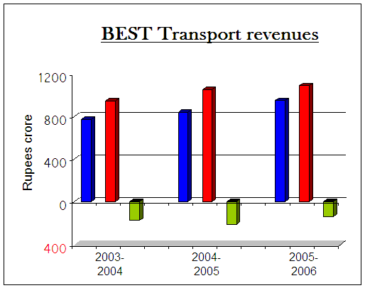 Transport revenues of the Brihanmumbai Electric Supply and Transport Blue:Earnings Red: Expenditure Green: Net profit/loss Source: Made by me, User:Nichalp =Nichalp User talk:Nichalp «Talk»= Transport revenues of the Brihanmumbai Electric Supply and Transport Blue:Earnings Red: Expenditure Green: Net profit/loss Source: Made by me, =Nichalp «Talk»=